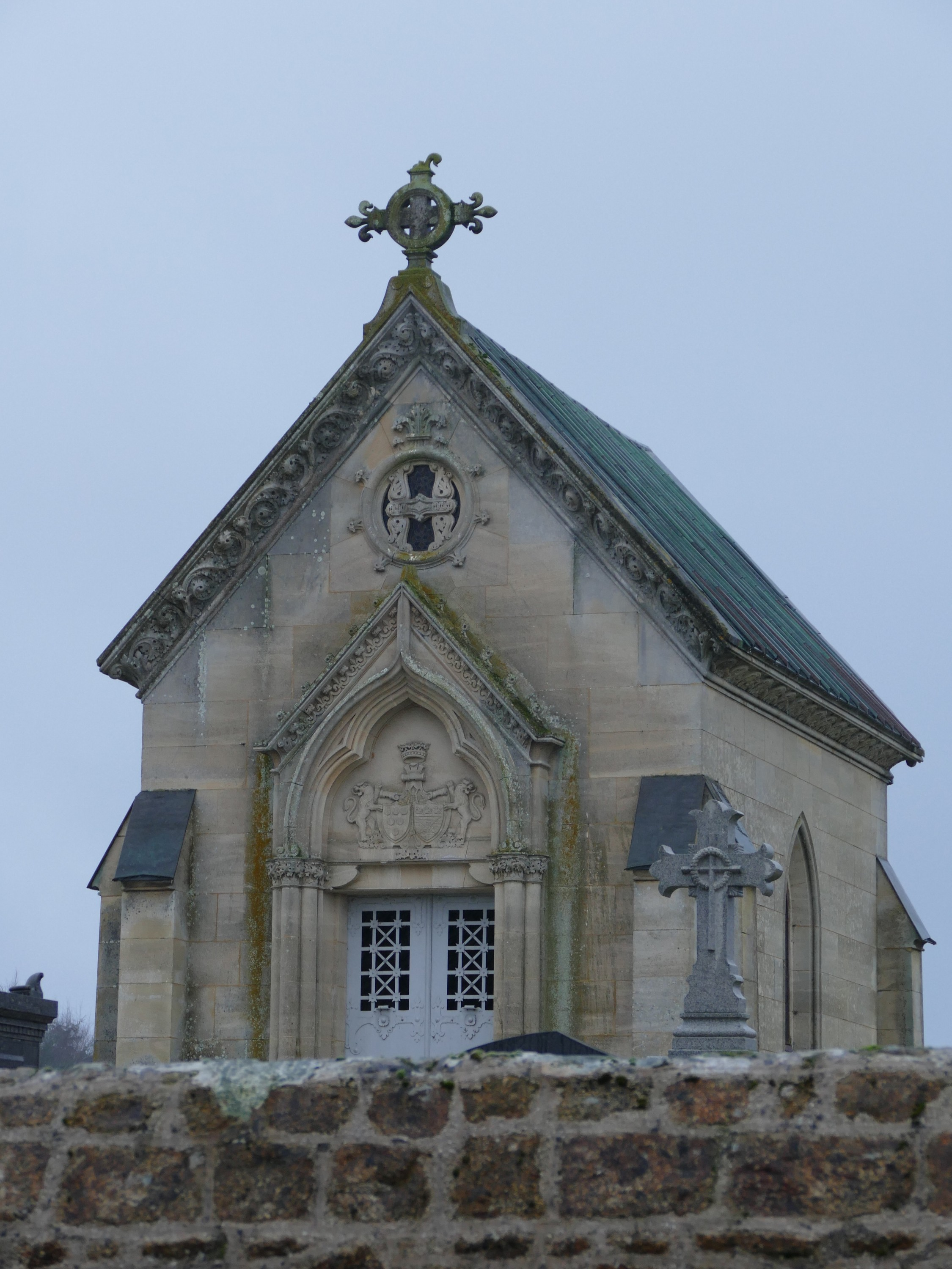 Chapel in Charchigné (Mayenne, Pays de la Loire, France).